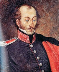 dimitrios ypsilantis